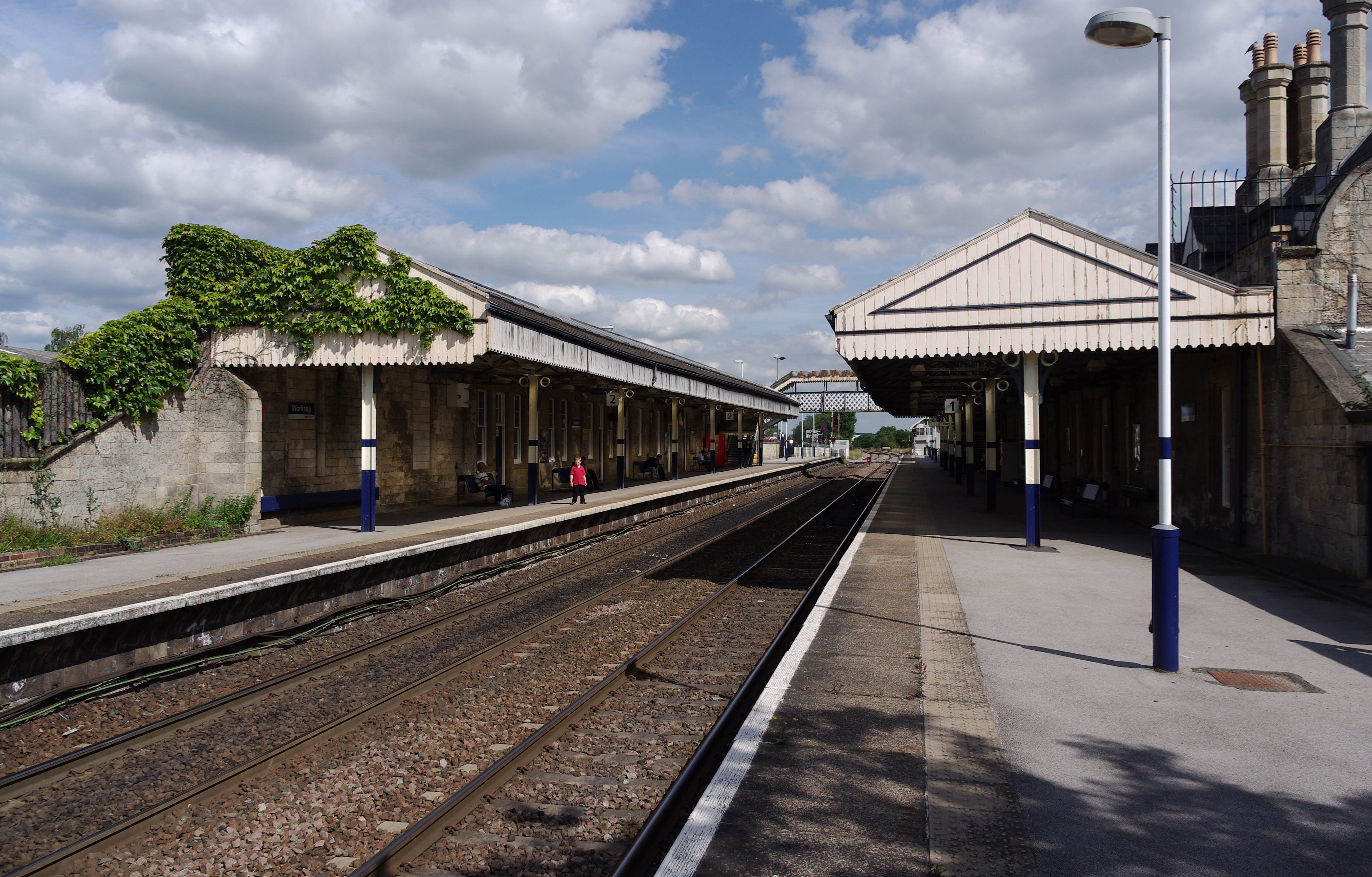 Worksop railway station, viewed from the west end of the platform.